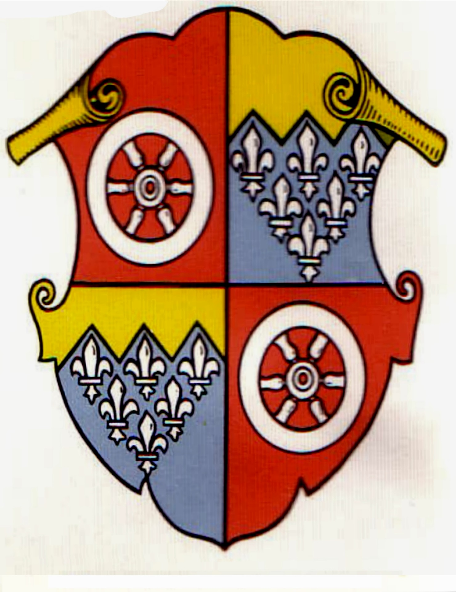 Wolfgang von Dalberg